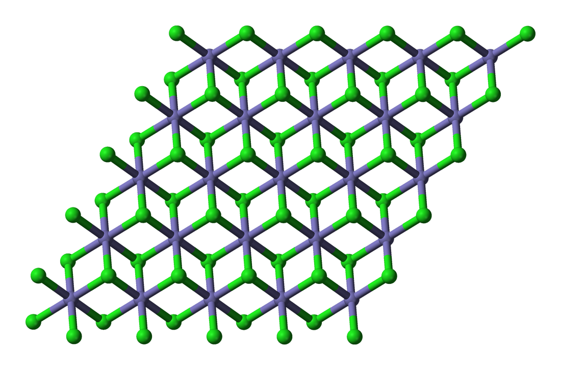 Ball-and-stick model of part of an (FeCl2)∞ sheet in the crystal structure of iron(II) chloride, FeCl2. X-ray crystallographic data from AMCSD, originally from R. W. G. Wyckoff, Crystal Structures 1, (1963) Second edition. Interscience Publishers, New York, 239-444.